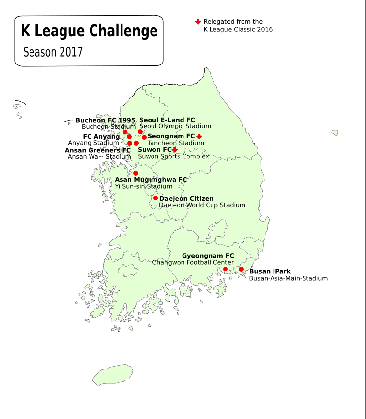 places of the K League Challenge 2017-Season